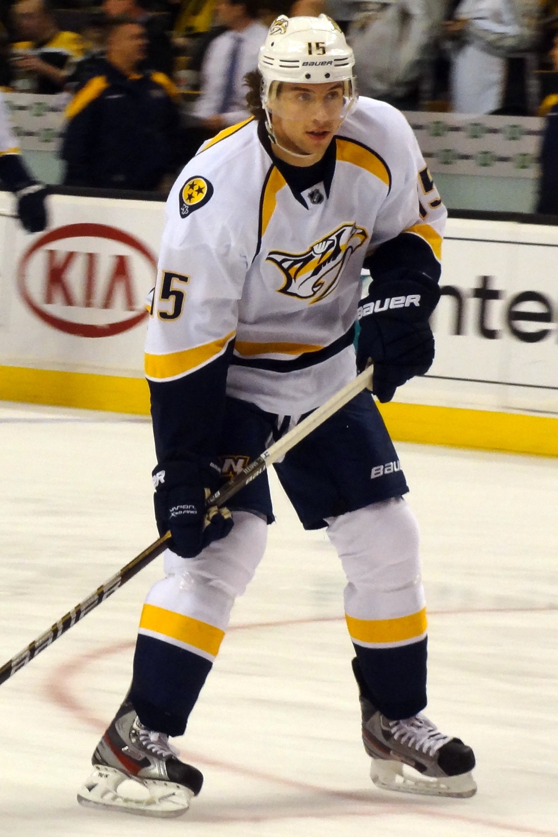 I took this picture of Craig during pre-game warm ups on Feb 11, 2012 at TD Garden, Boston, MA.